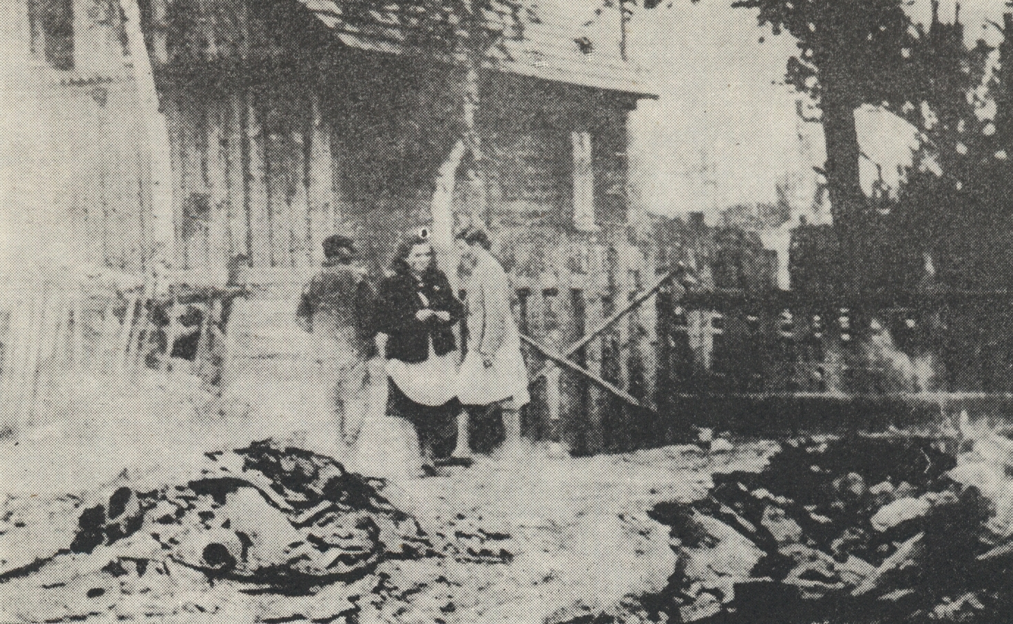 Polish village Szarajówka in Biłgoraj county burned by German occupants. On 18th May 1943 German gendarmerie and their Ukrainian collaborates destroyed Szarajówka and murdered 67 of its inhabitants. Most of the victims (58) were burned alive. This photo was taken after the massacre.